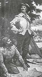 Jean Baptiste de La Verendrye at Lake of the Woods; grayscale detail from a painting entitled La Vérendrye au lac des Bois by Arthur H. Hider.